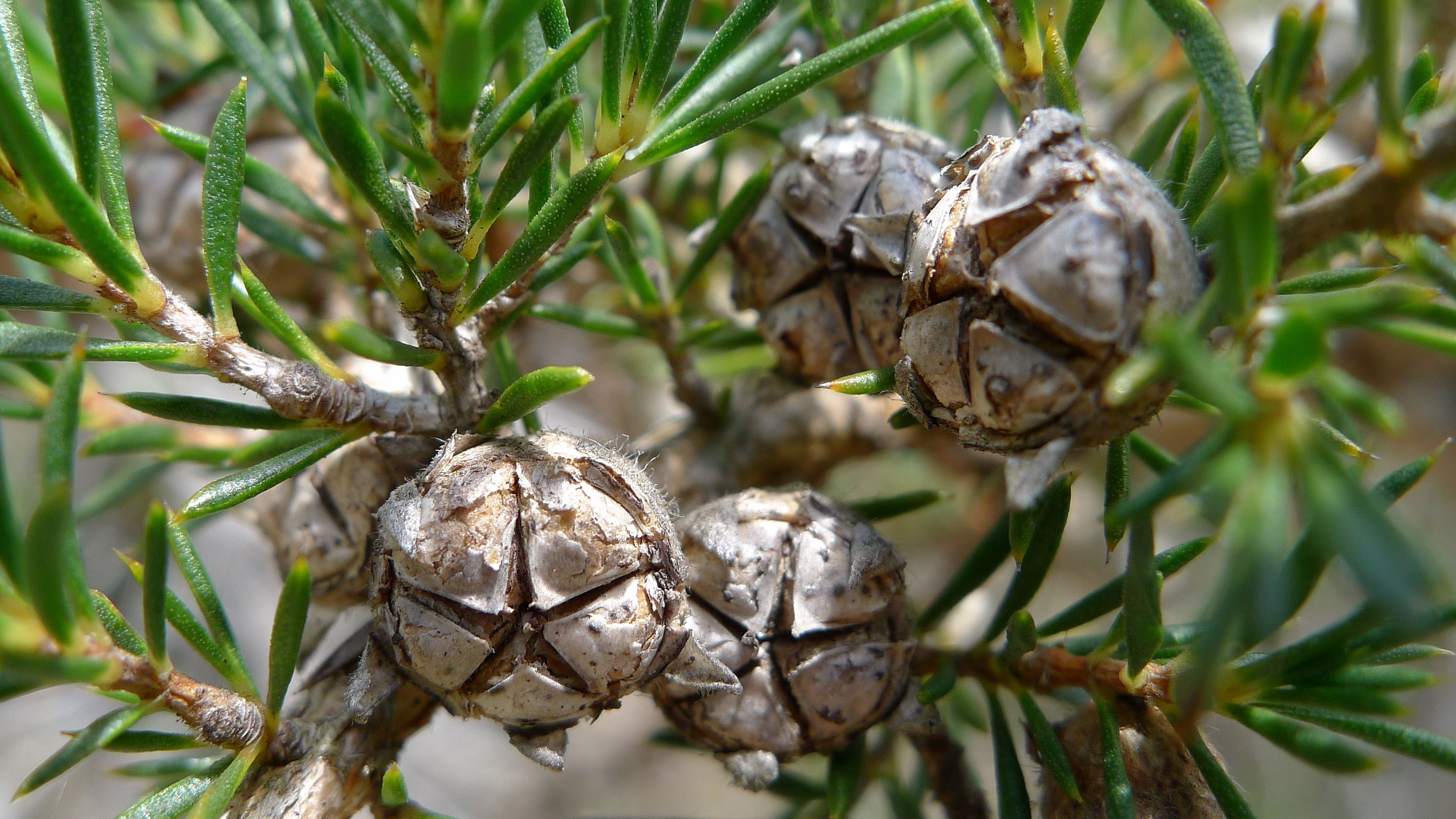 Hairy fruit capsule losing its hairiness with age. Spidery Tea-tree, Leptospermum arachnoides. Royal National Park, NSW Australia, December 2011.